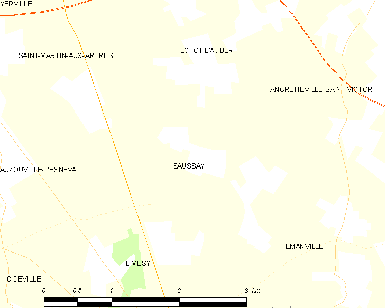 Map of French municipality Saussay